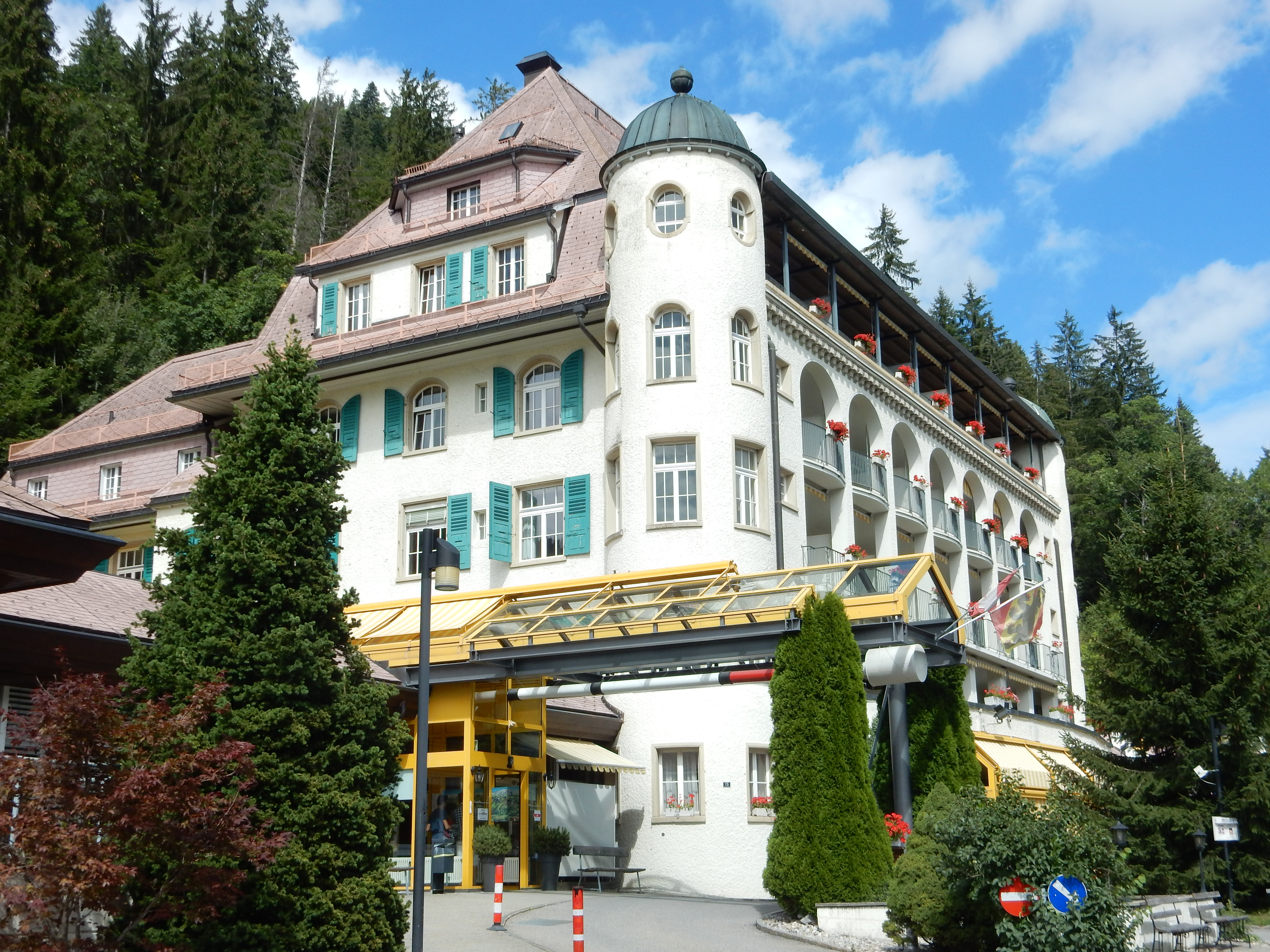 Hotel Solsana in Saanen, canton Berne, Switzerland